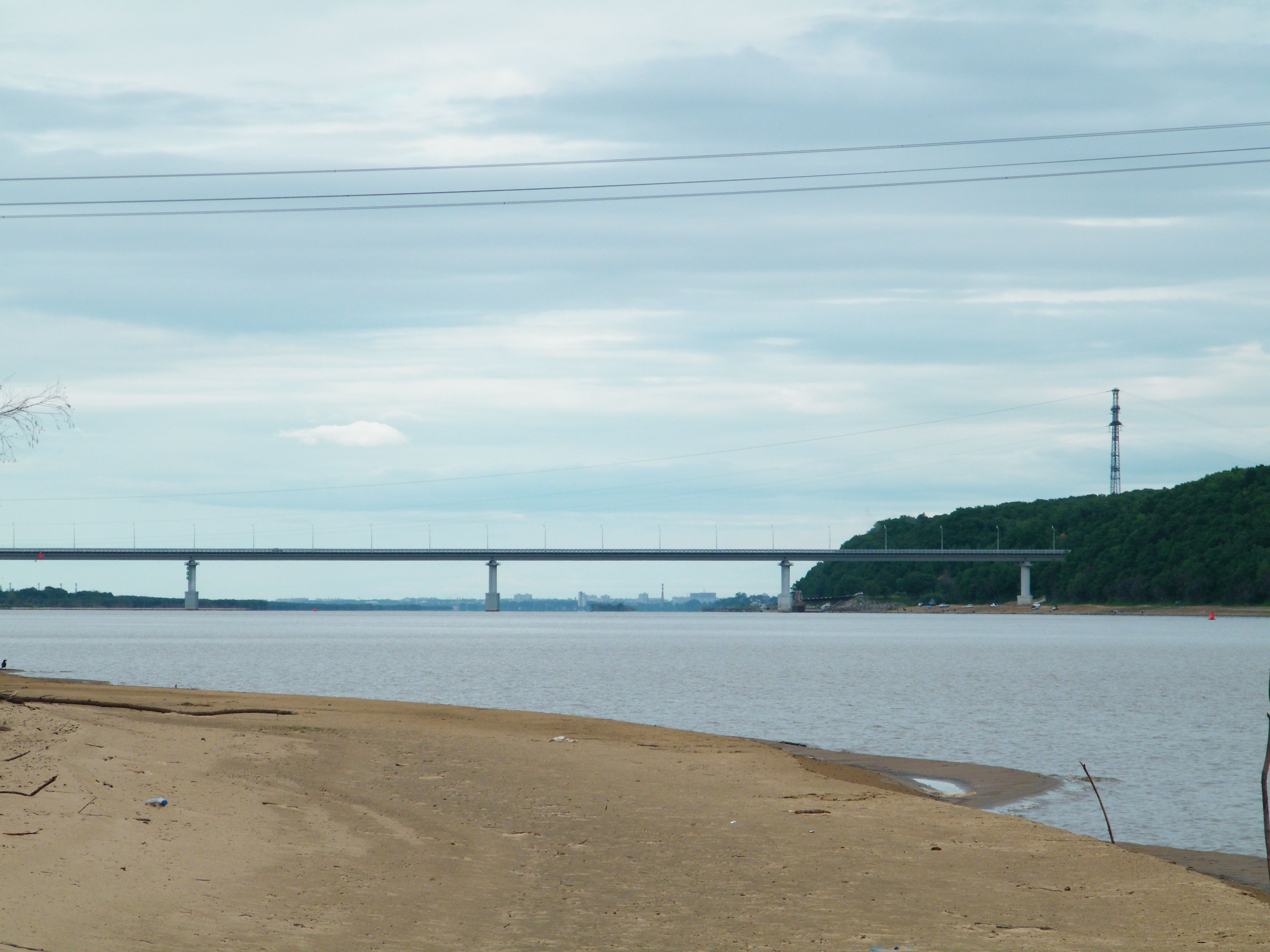 Amurskaya protoka